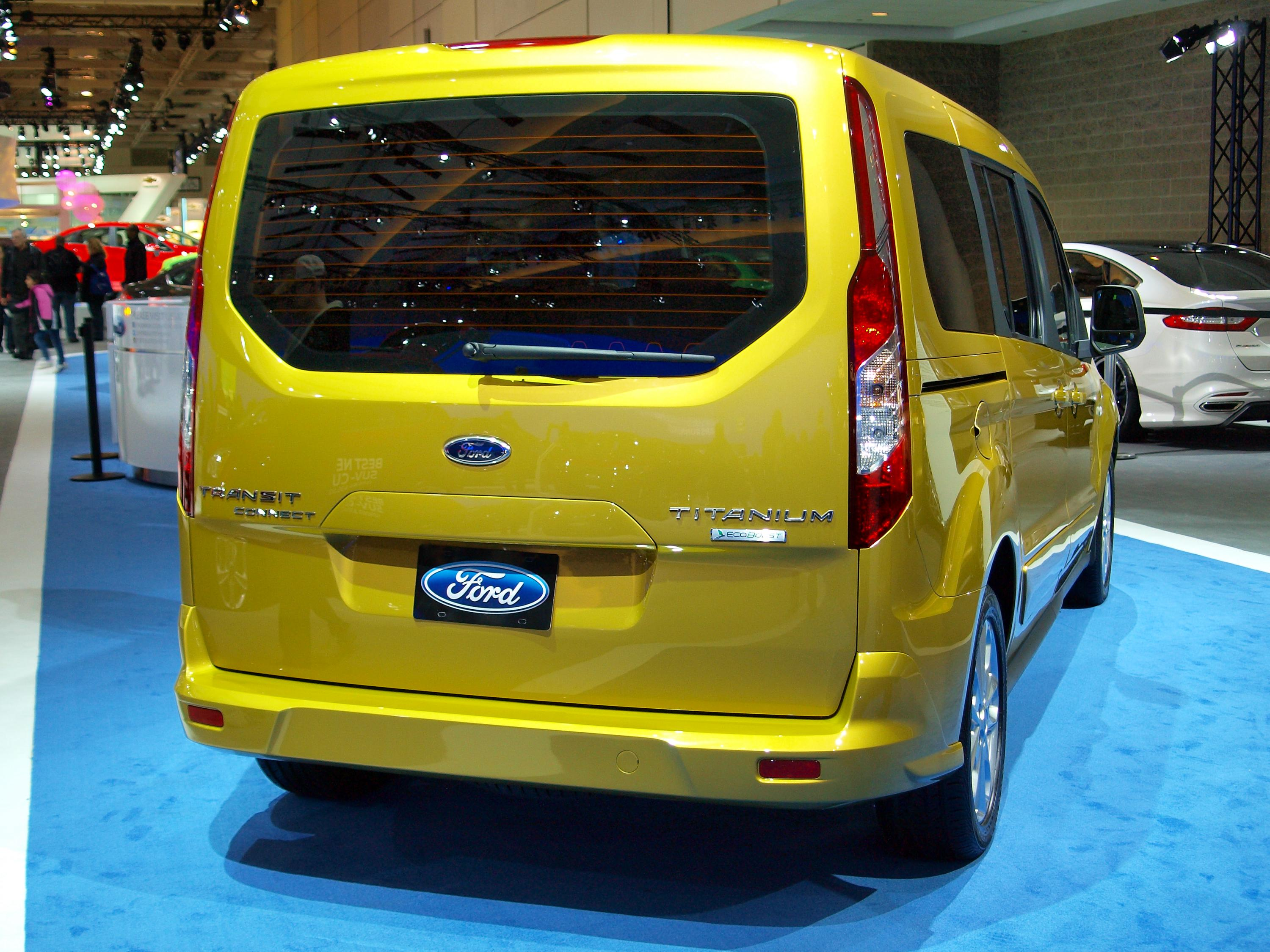 I remember when they first brought over the Transit Connect from Europe and it became a HUGE hit! With this restyled version, it's going to explode! Good Job Ford; We've only been telling you for years to bring over your European styled cars!